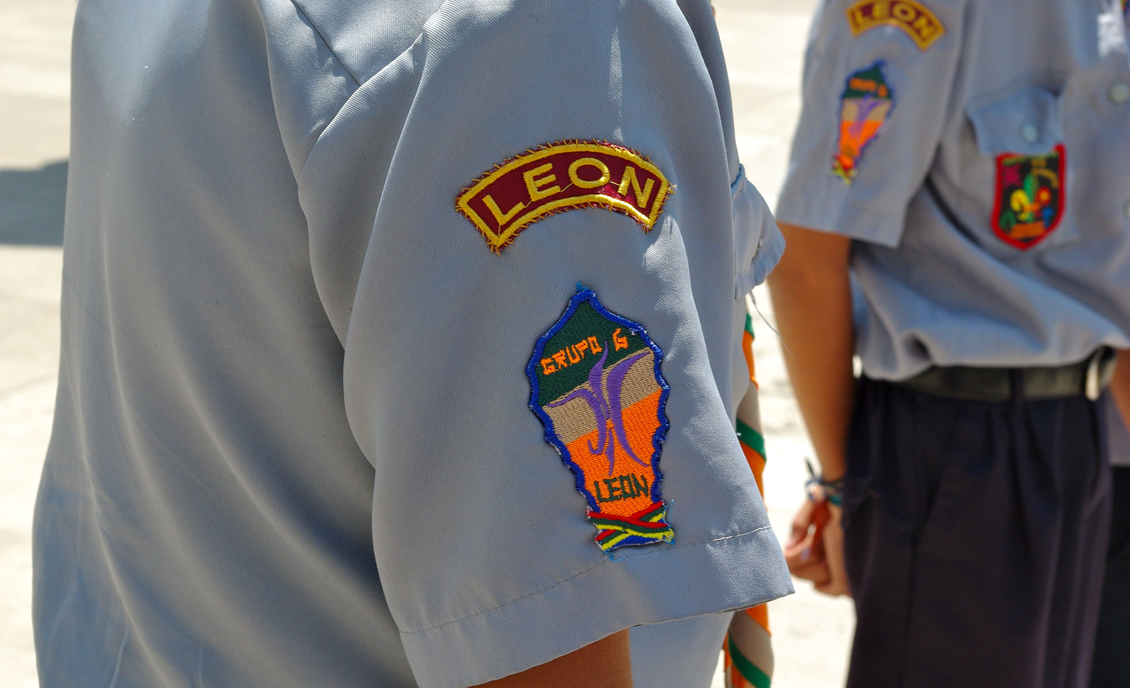 Adult Scouting leaders in Mexico City, March 13, 2010; Photo features shoulder patches of a Leon, Mexico, unit. Also will be used in Scouting and Guiding in Mexico. Other information Photo by George Garrigues.